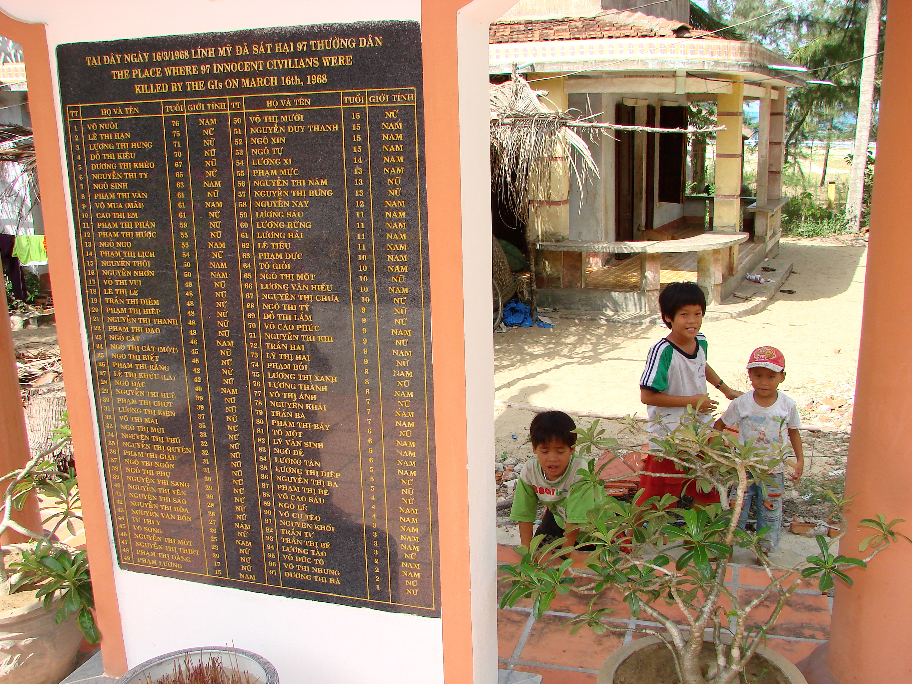 Children cluster near a memorial to villagers of Co Luy hamlet, near Quang Ngai, Vietnam, who were gunned down in the My Lai massacre of 16 March 1968. June 2009.